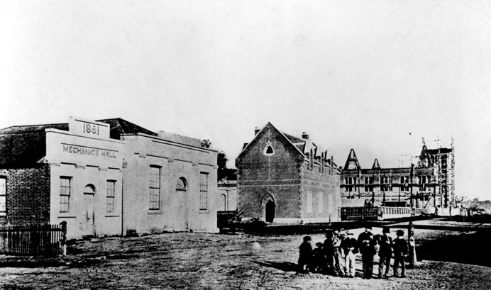 Swan River Mechanics Institute, corner Hay and Pier Streets, Perth, looking west. Perth Town hall (under construction) is in the background